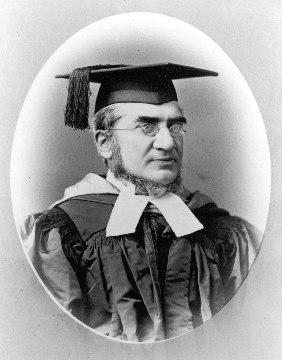 Abraham de Sola (1825– 1882) Source: McGill University Archives Subject Description: PORTRAIT: ABRAHAM DE SOLA, PROFESSOR OF HEBREW AND ORIENTAL LITERATURE Date: ND File Name: PR000296